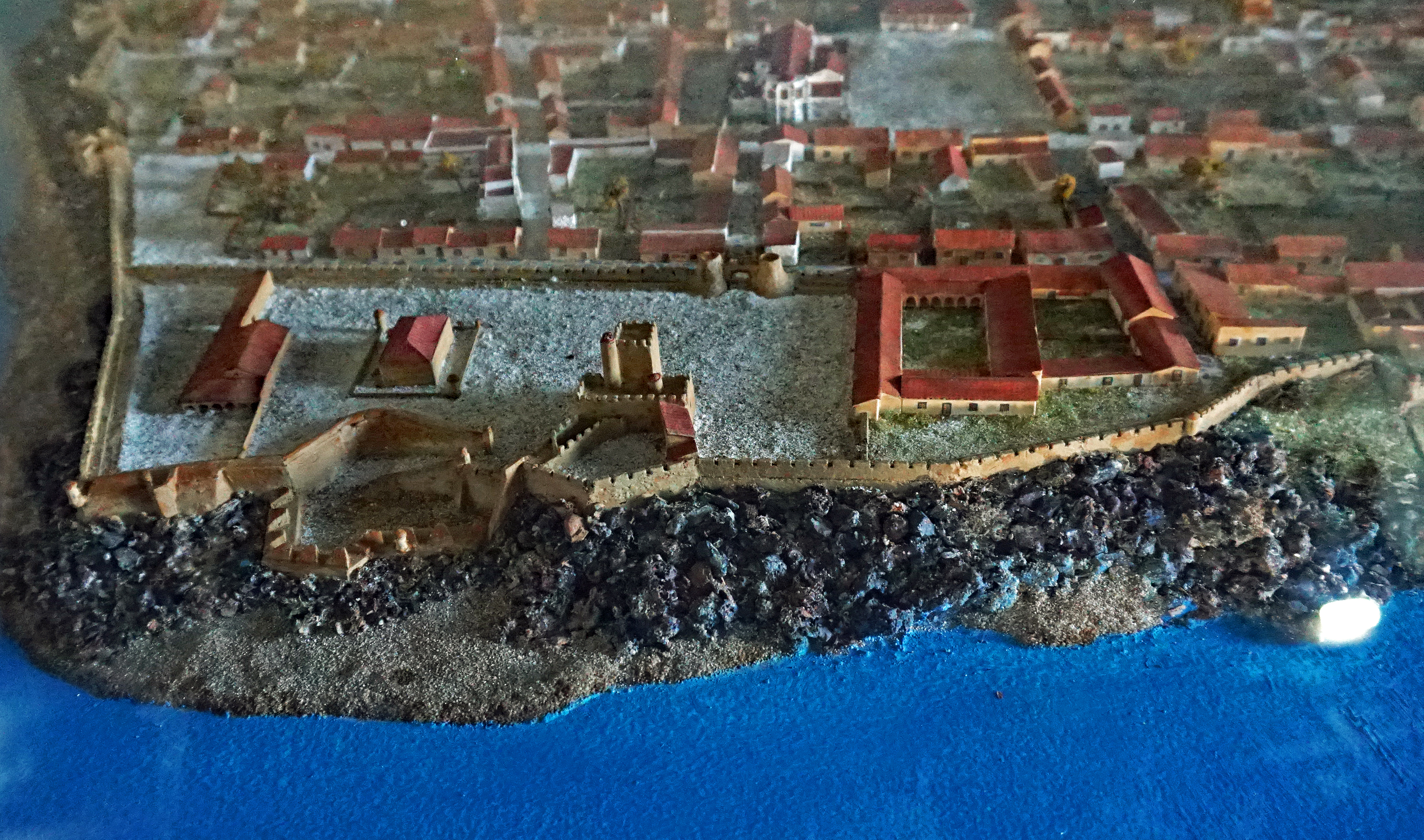 Scale model of Fortaleza Ozama circa 1785, Ciudad Colonial de Santo Domingo. Model made by Don Tomás López and exhibited at the new Museo de las Casas Reales. Dominican Republic.